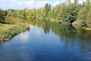 Río Tera (provincia de Zamora).